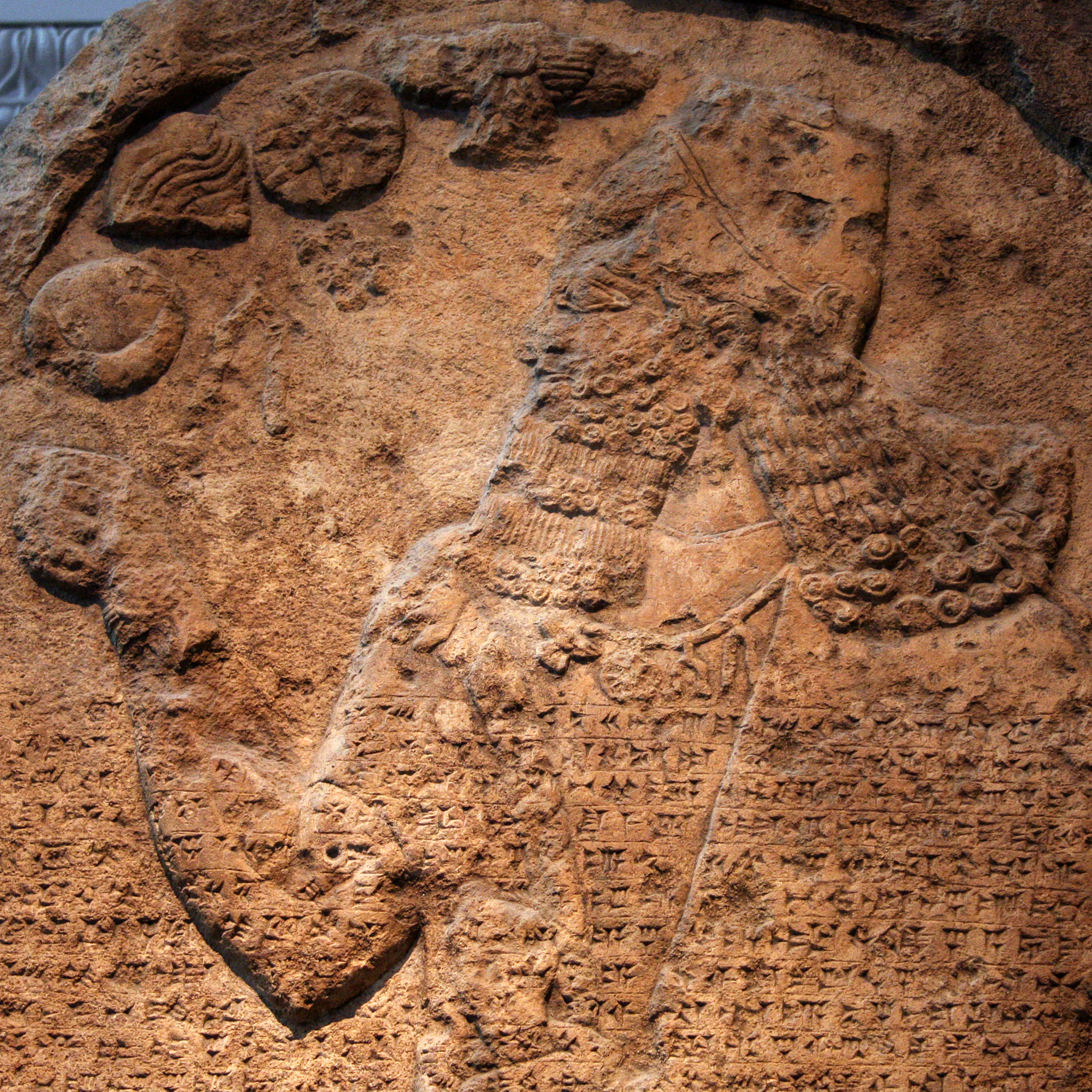 Cuneiform script on the Kurkh Monolith depicting Assyrian king Shalmaneser III (9th century B.C.), kept at the British Museum